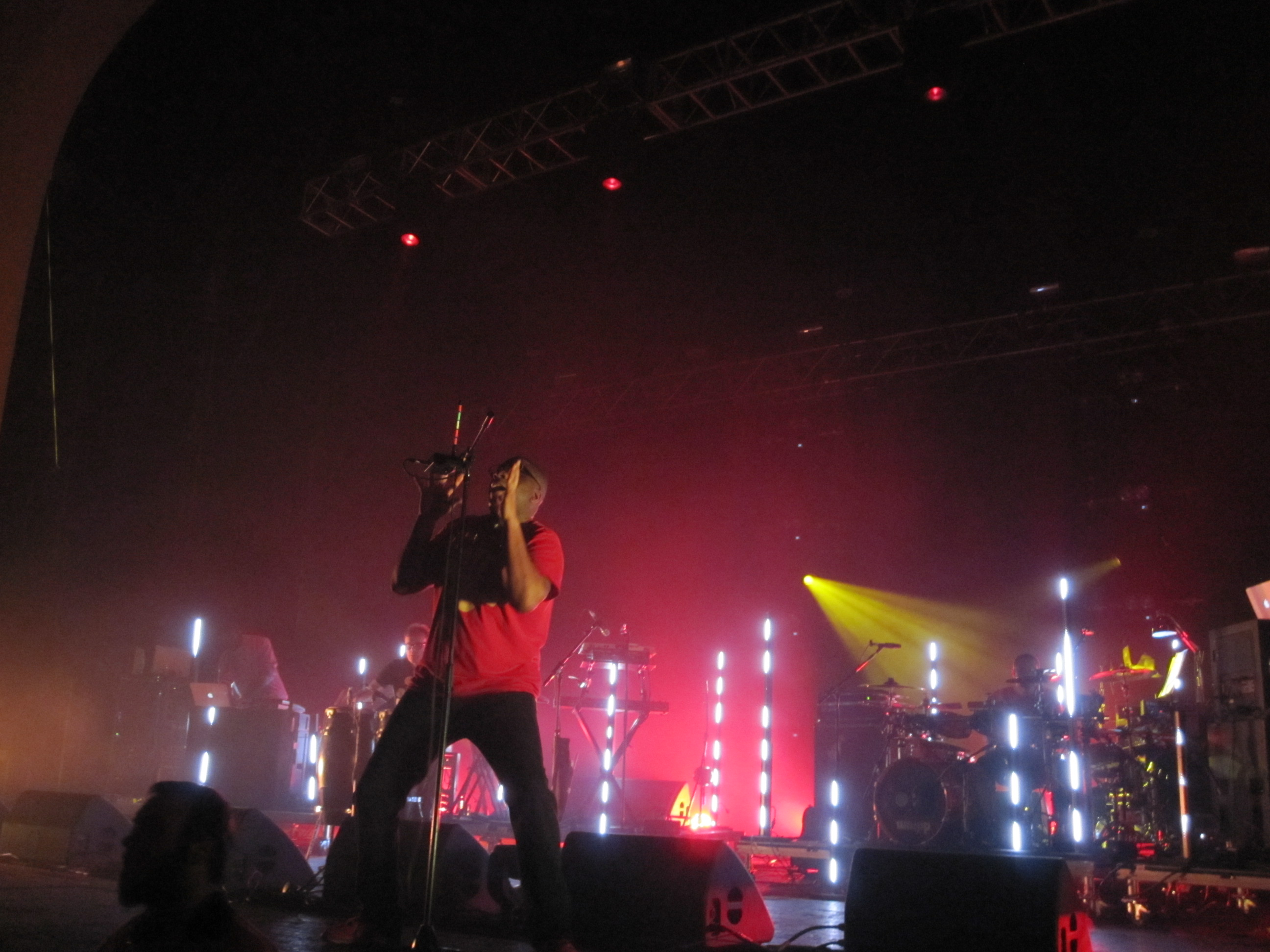 Djum Djum playing theremin with Leftfield in December 2010 at the Brixon Academy, London